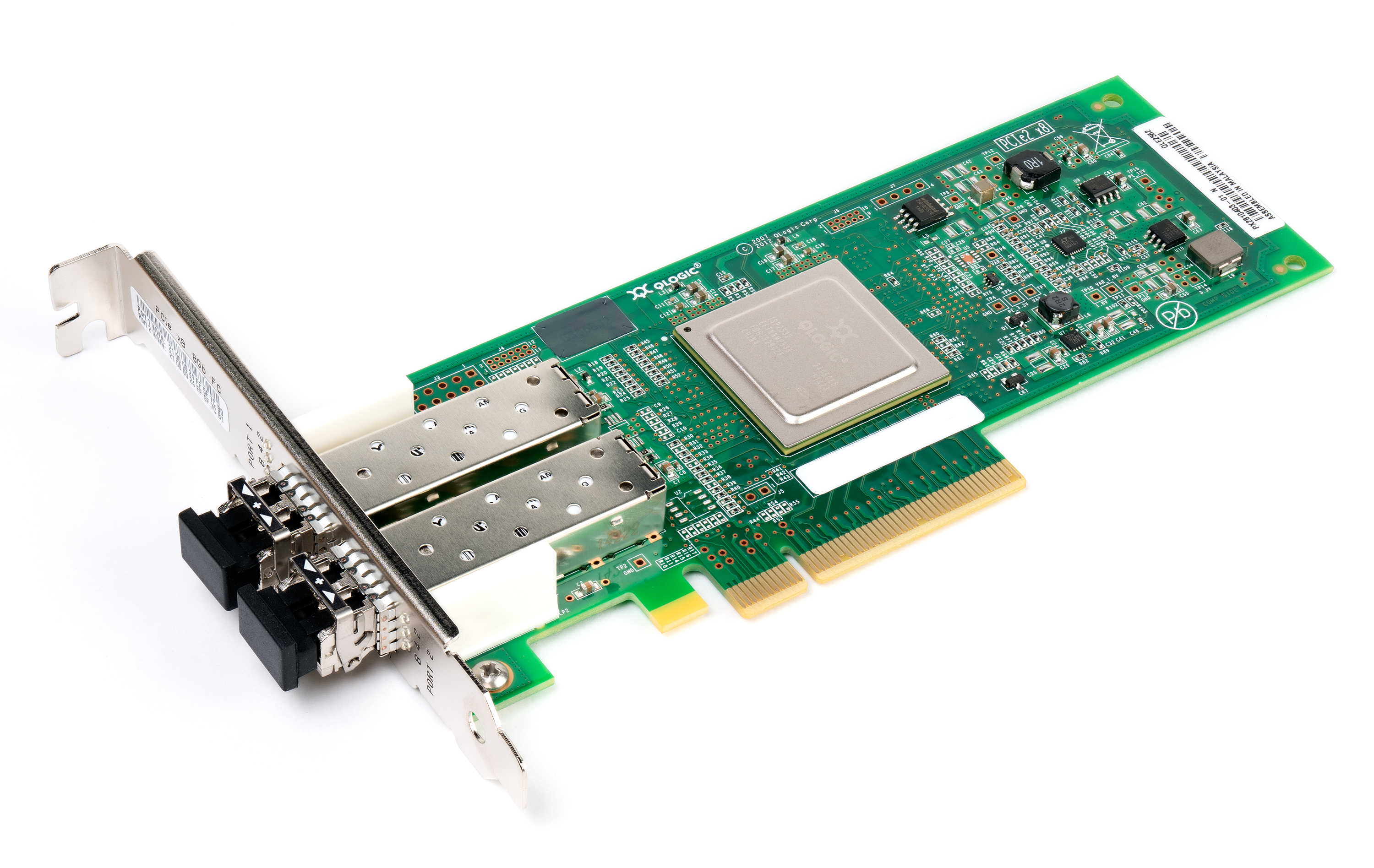 QLogic QLE2562 8Gb Fibre Channel host bus adapter card. Two 8Gb FC ports with SFP transceivers, PCIe x8 interface.